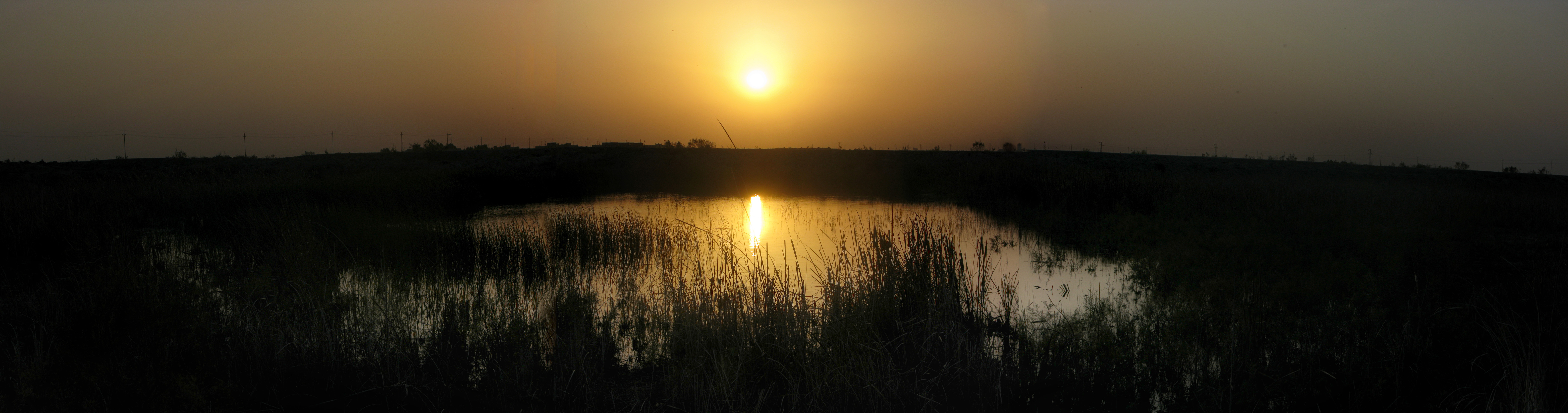 Marshes in southern Iraq